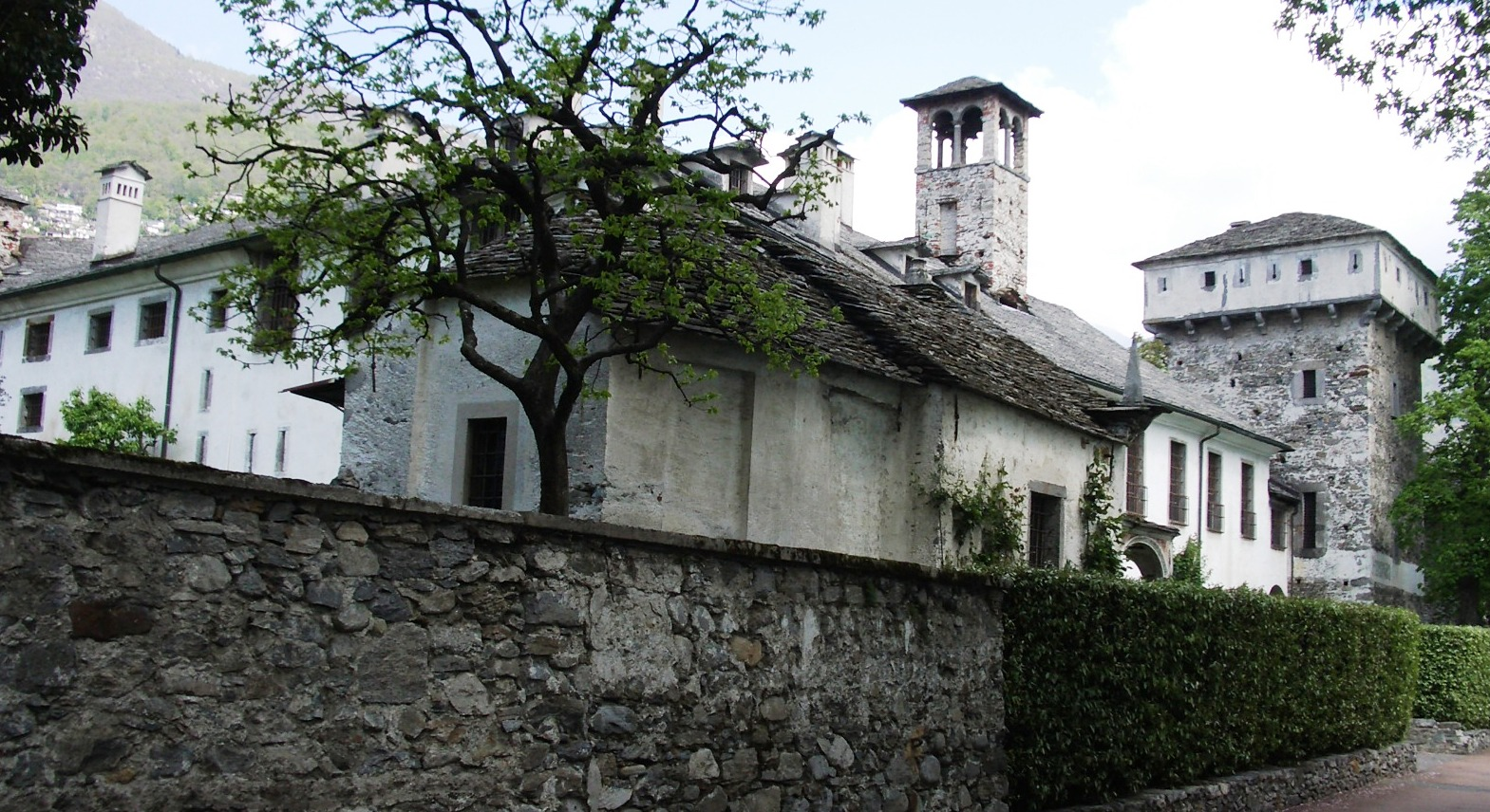 Minusio, Ticino, Switzerland. Ca’ di Ferro. self-made, May 2006